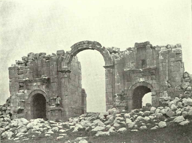 Jordan Jarash 1906